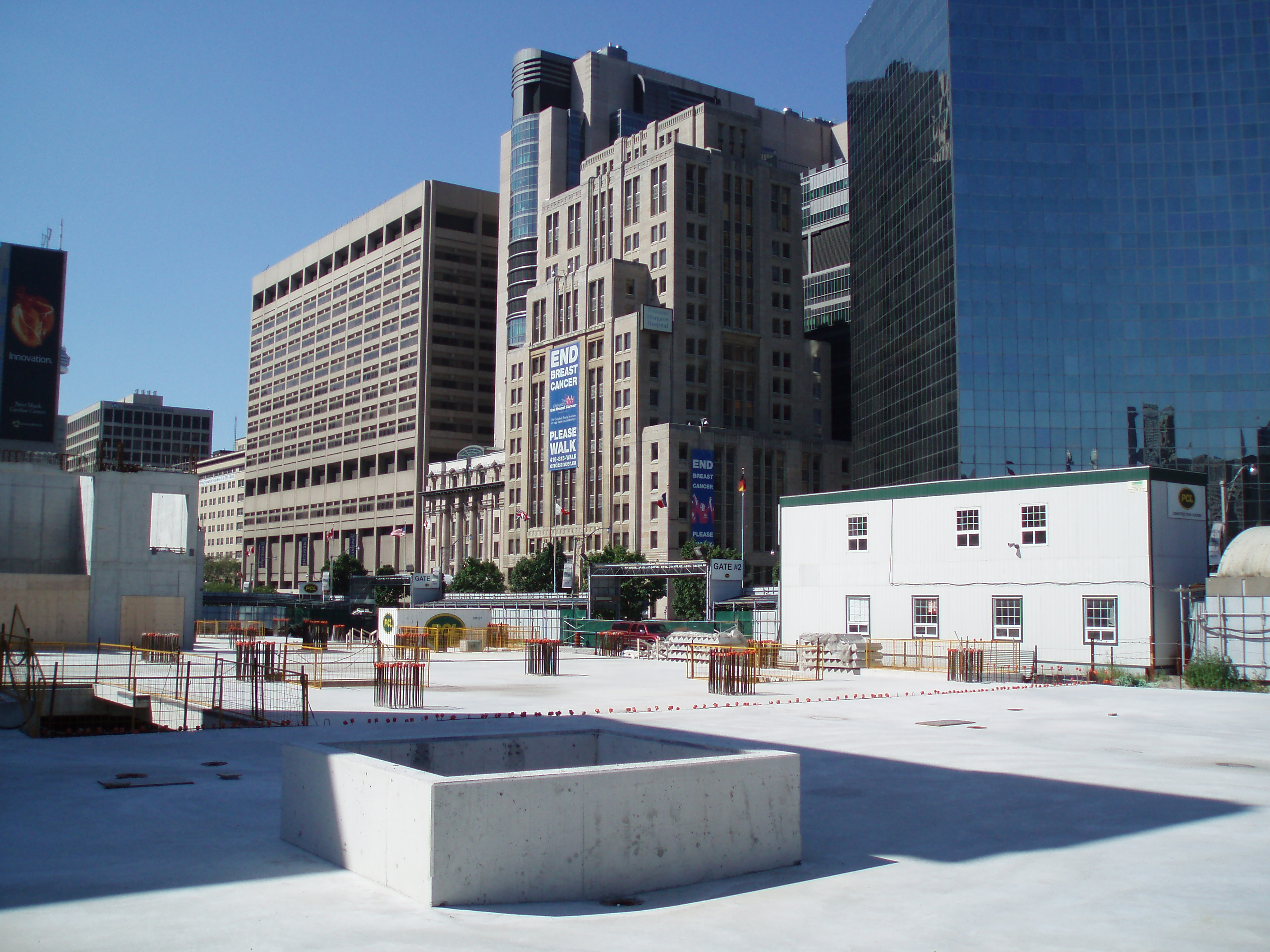 MaRS Phase 2 construction put on hold.